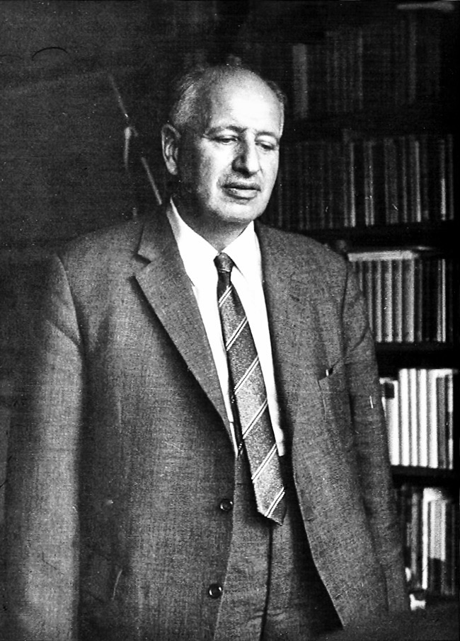 Editor Hein Kohn (1907–1979) during the 1950s in Hilversum, born as Heinz Kohn in Augsburg, Franconia, Bavaria, Germany